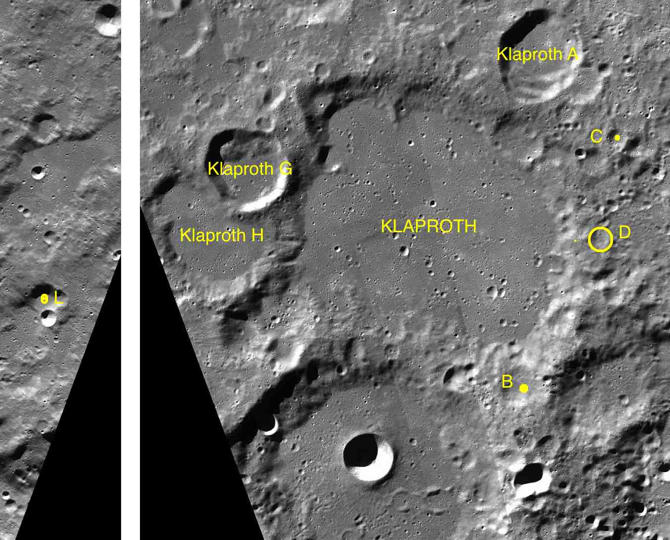 Parts of the charts LAC-136, LAC-137 used for the presentation